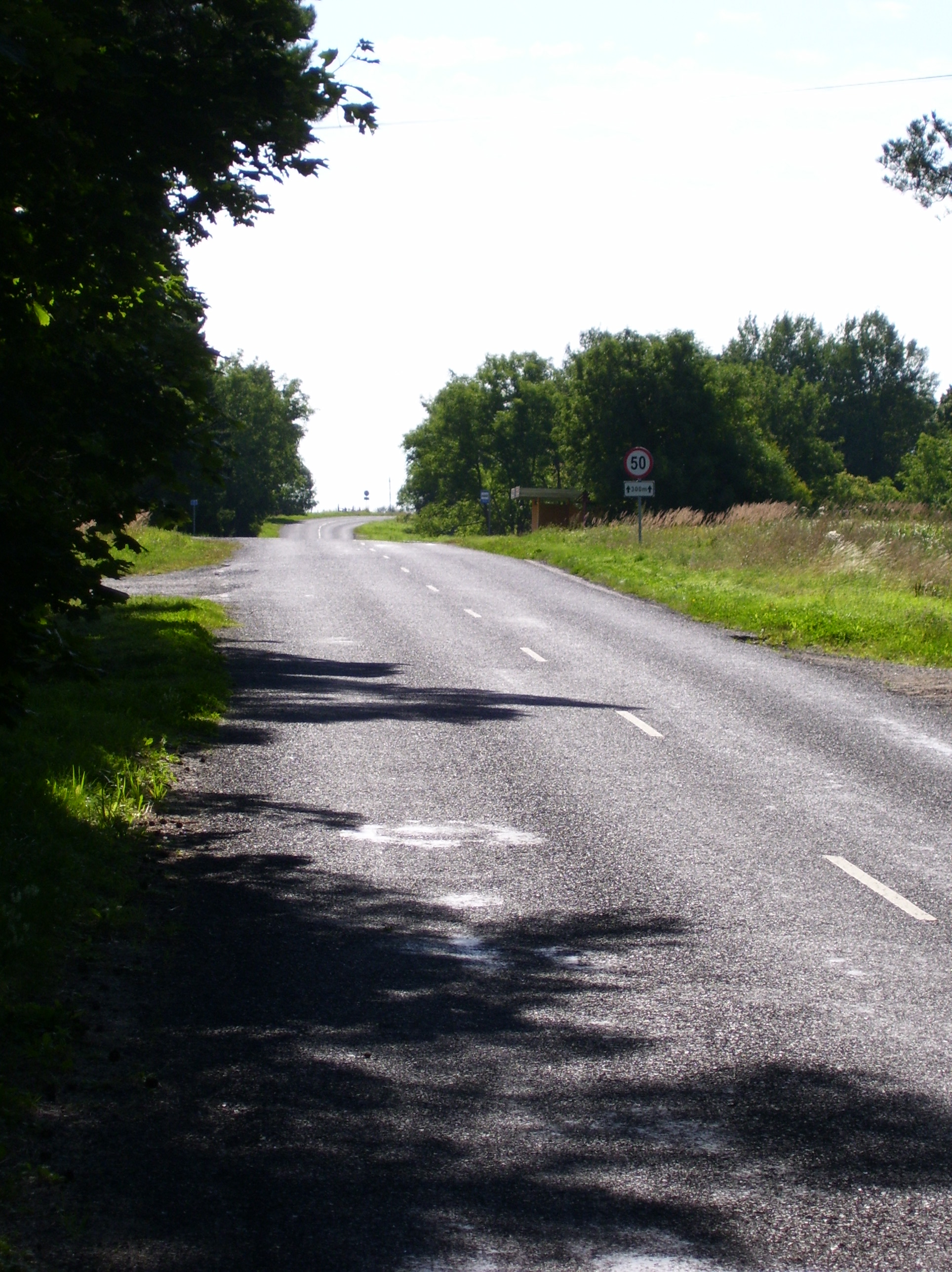 The hill of Turje, Kuusalu Parish, Estonia (view form the centre of the village of Muuksi)